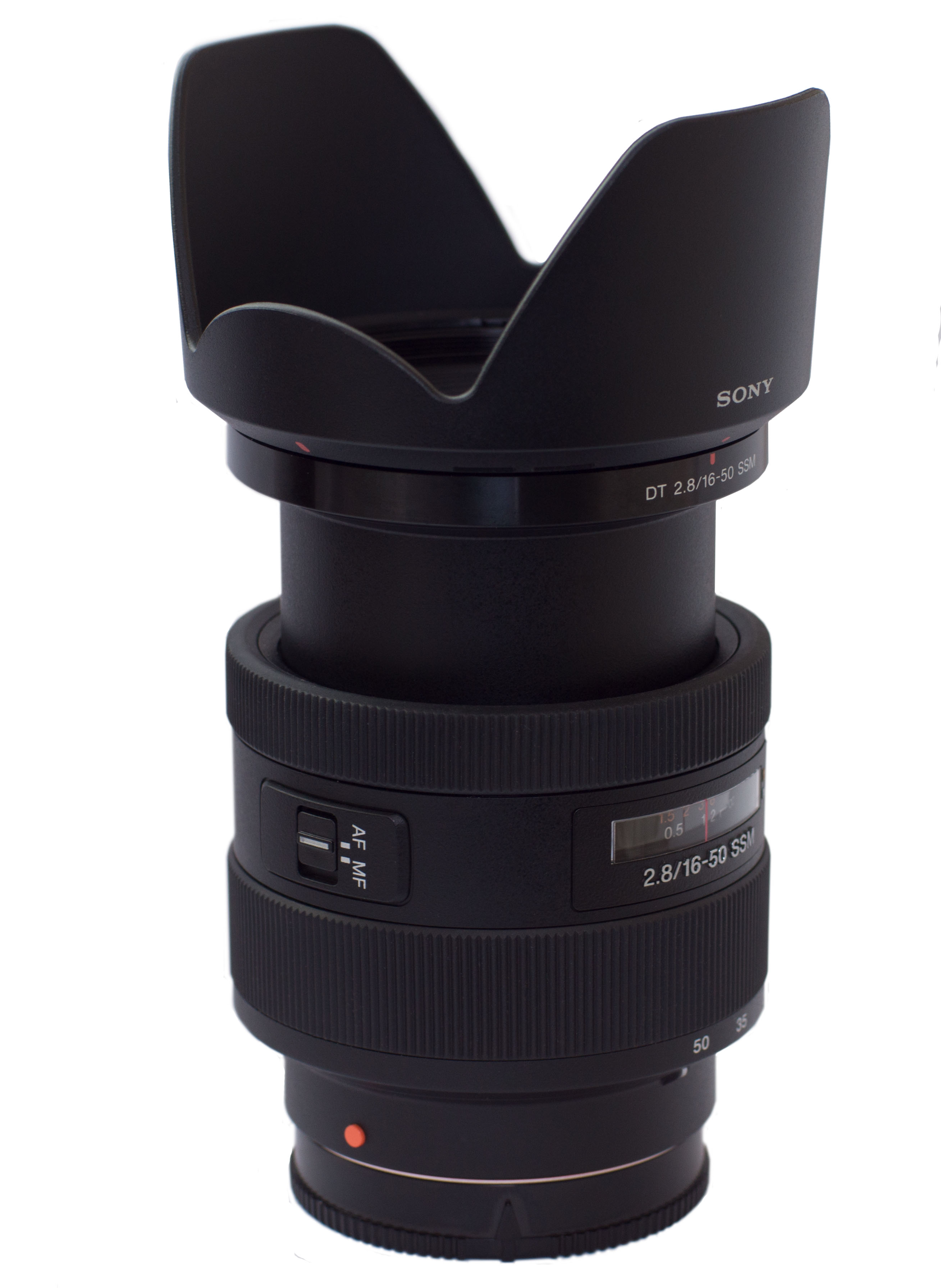 Bright zoom lens for Sony Alpha cameras. Sony DT 16-50mm f/2.8 SSM. Lens is set at 50mm with hood on.